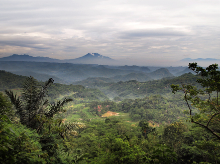 A picture taken from Sodong Hilir District in Tasikmalaya Regency, West Java. Showing paddy fields in the middle of a hilly terain of Tasikmalaya Regency, whilst Mount Galunggung seen far in the distance.